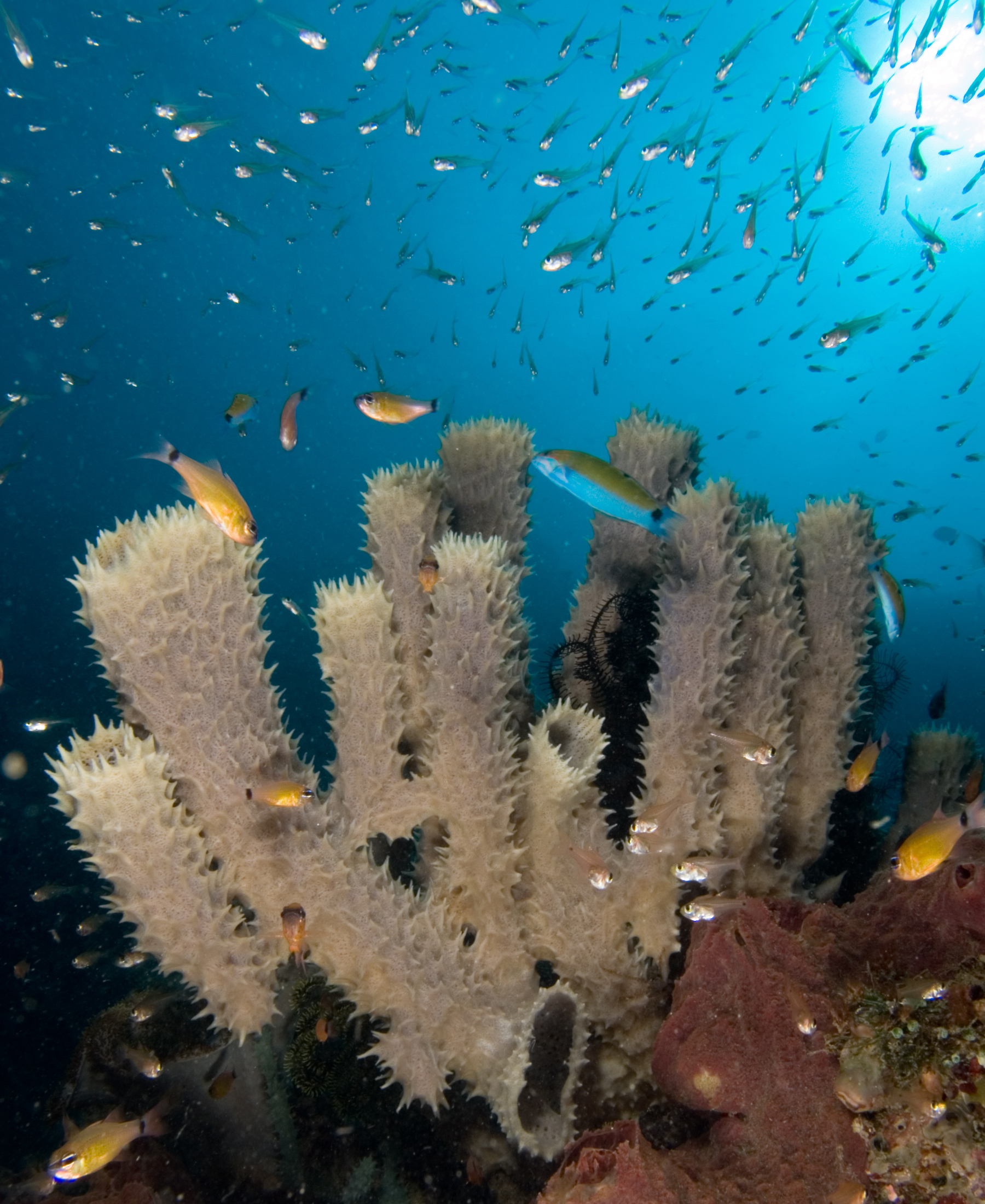 Callyspongia sp. (Tube sponge) attracting cardinal fishes, golden sweepers and wrasses.